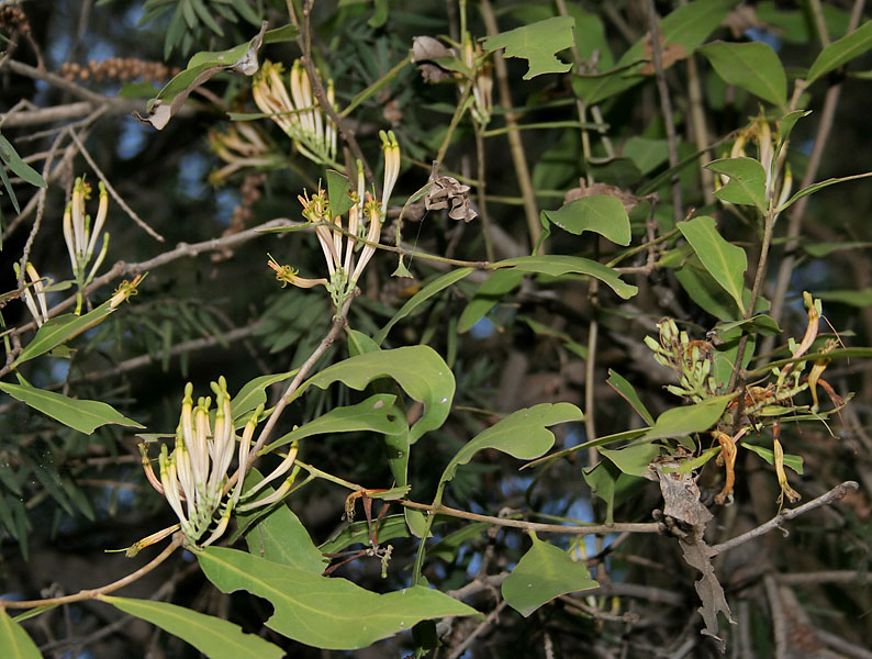 Dendrophthoe falcata in Hyderabad , India.